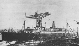 The Columbus during fitting out.